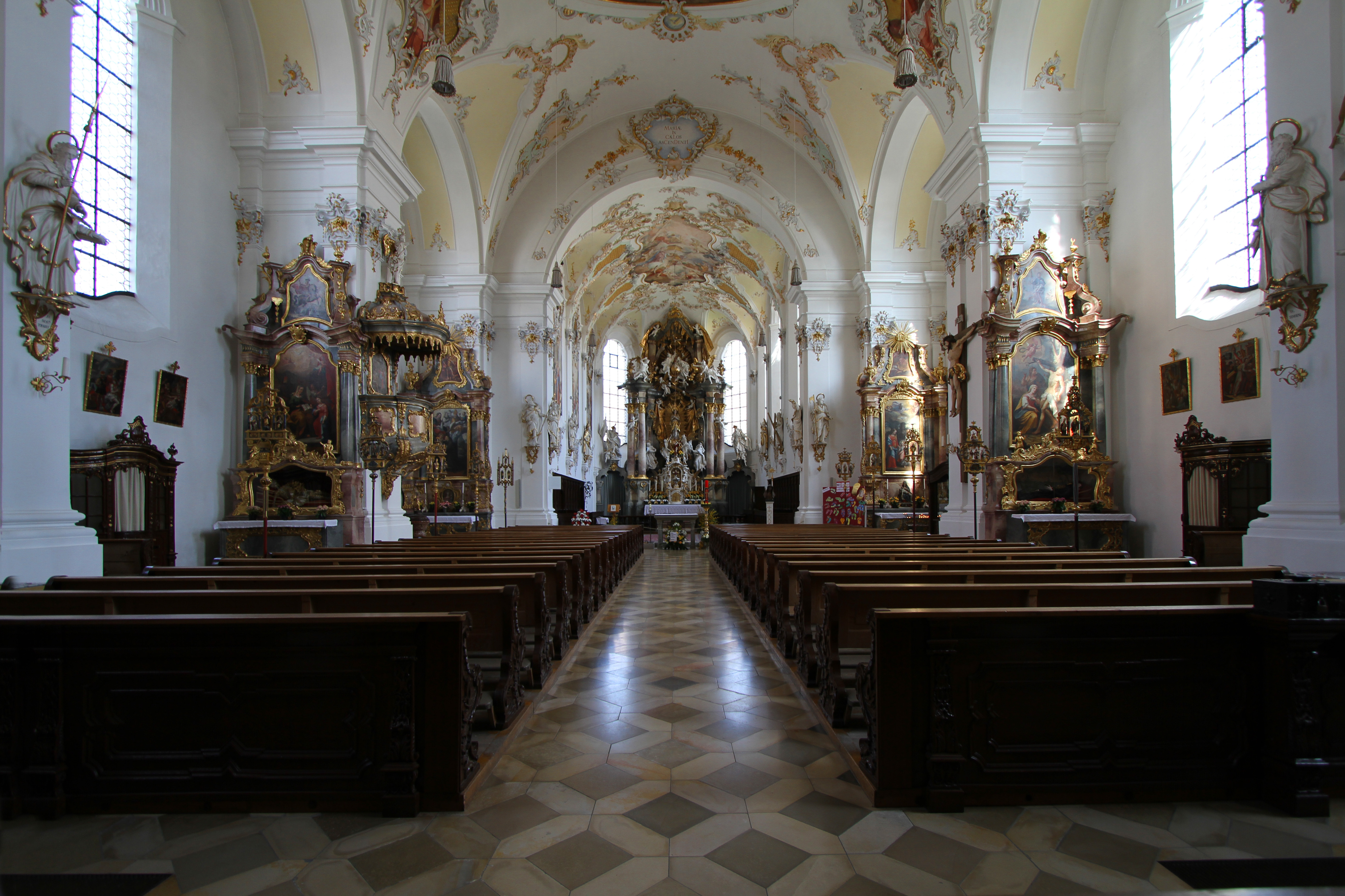 Church of Mariä Himmelfahrt in Schongau near Schongau, interior decoration.